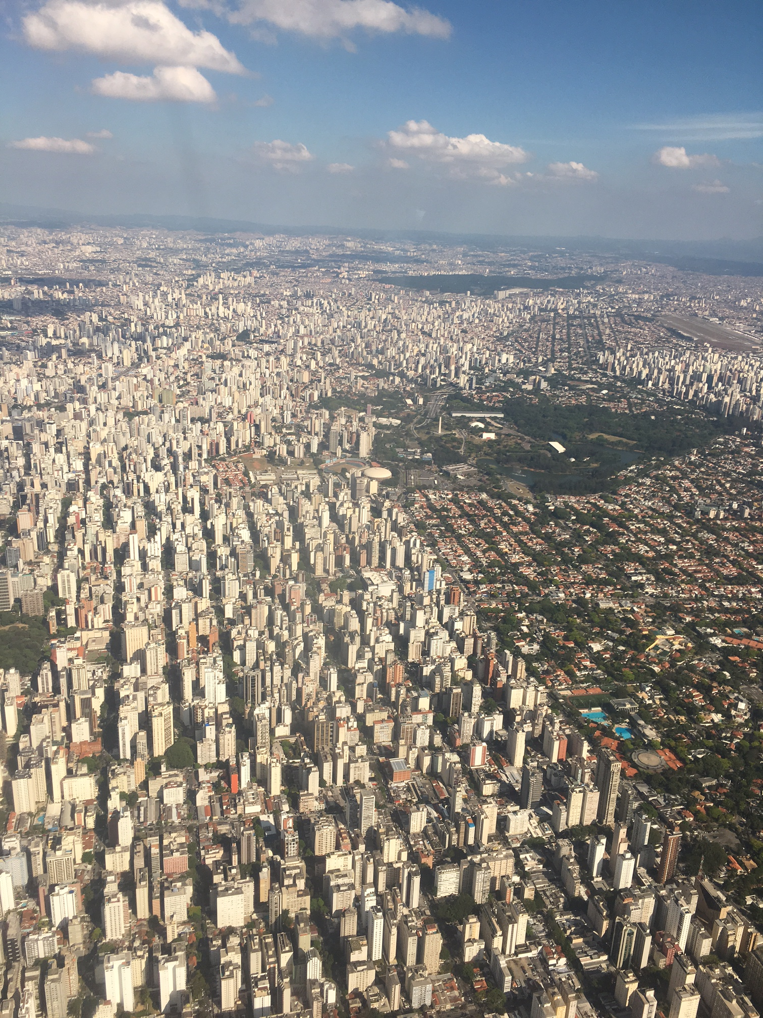 Sao Paulo skyview